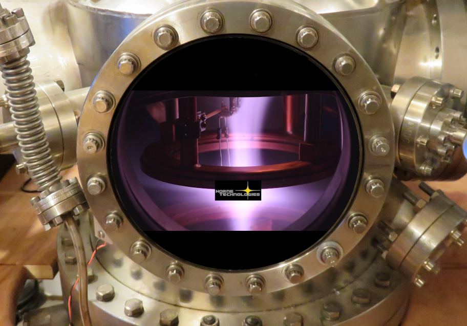 This image of the Horne Hybrid Reactor shows the first prototype utilizing superconducting technology in a high-beta magnetic configuration.